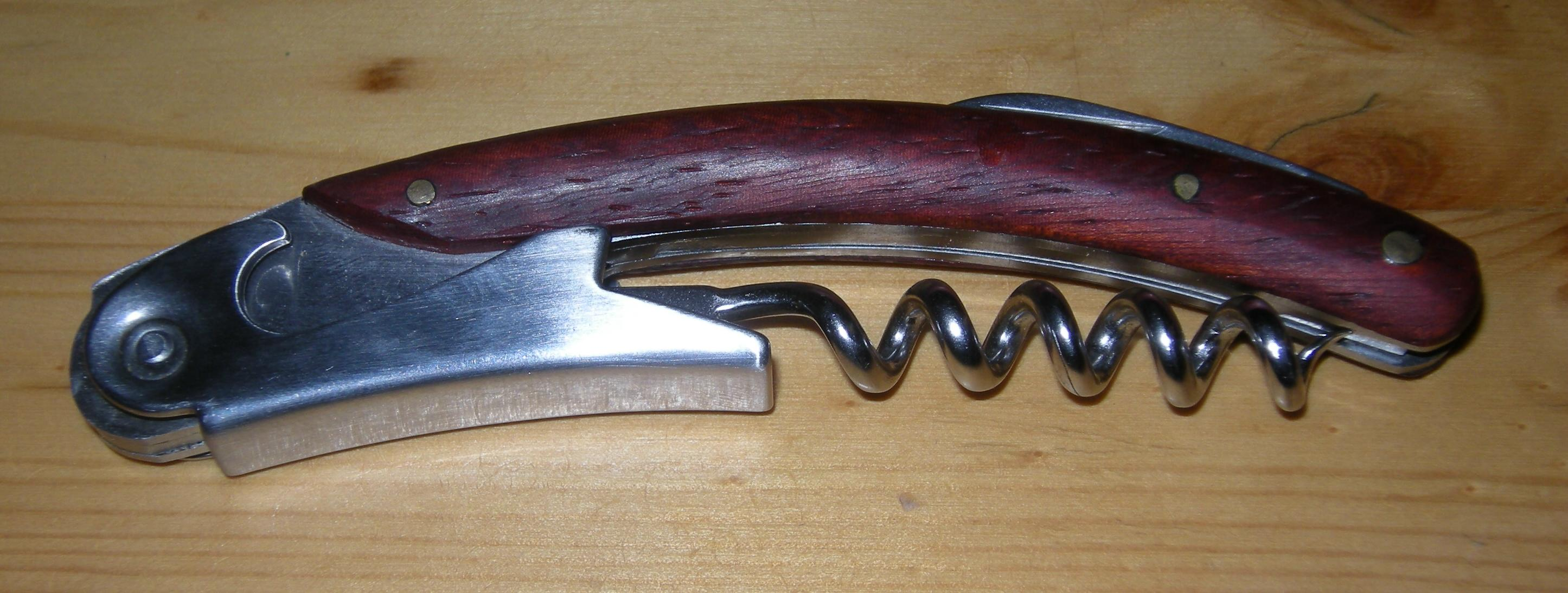 Cavatappi, Corkscrew, Tire-bouchon, Korkenzieher, Sacacorchos, Saca-rolhas, コルクスクリュー